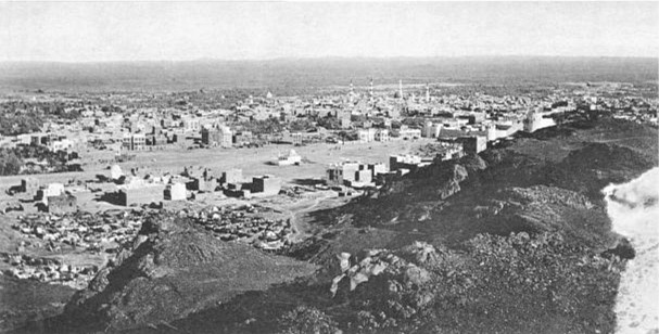 A general view of Medina from Mount Sela' in the northwest.